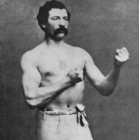 John Camel Heenan, the American bare-knuckle boxer of the 19th century, seen here a few years after his famous fight with Tom Sayers.